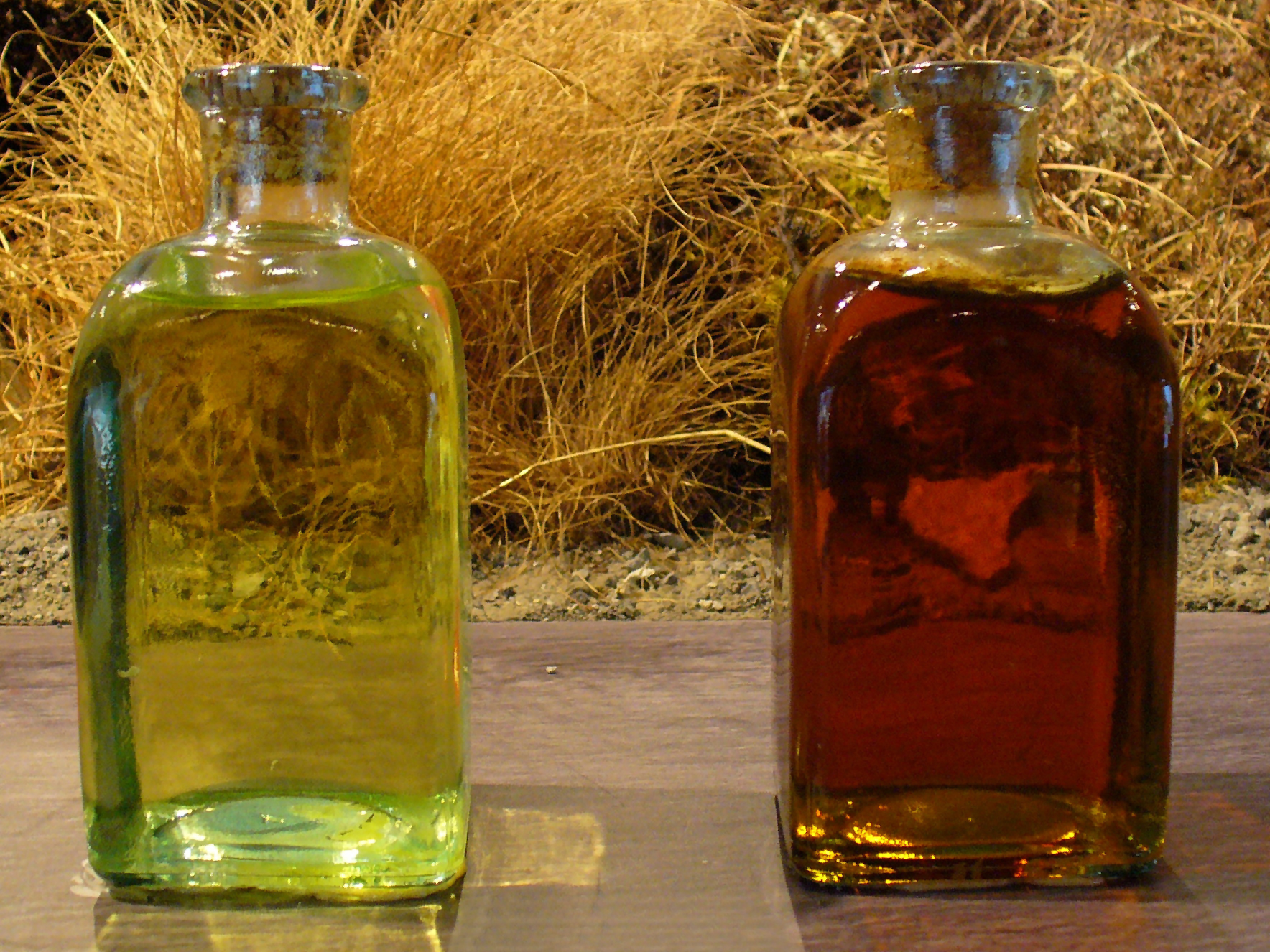 Marmota marmota, Sciuridae, Alpine Marmot; Rendered down marmot fat; National park center, Zernez, Switzerland. There exist two kinds of fat, the so called "Speck" (left) and the "Schmär" (right).